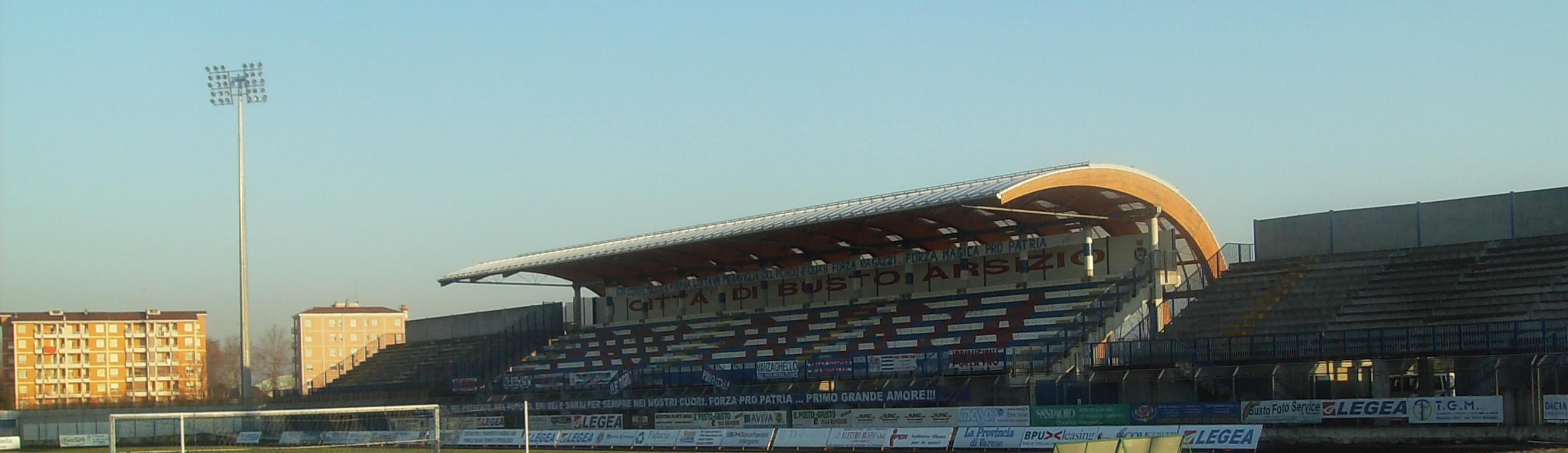 Speroni Stadium - Busto Arsizio